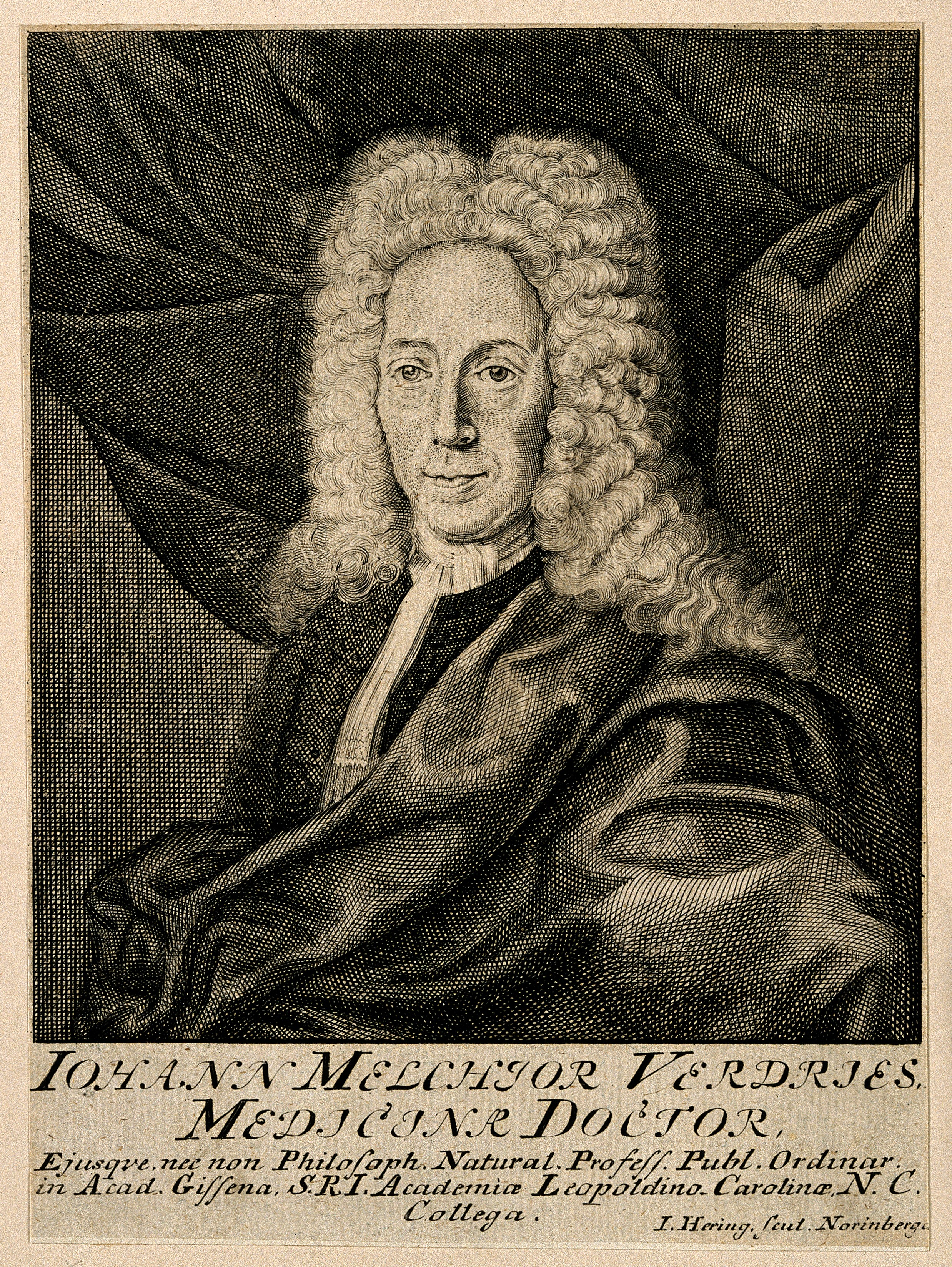 Johann Melchior Verdries. Line engraving by J. Hering. Iconographic Collections Keywords: portrait prints; engravings; Johann Melchior Verdries